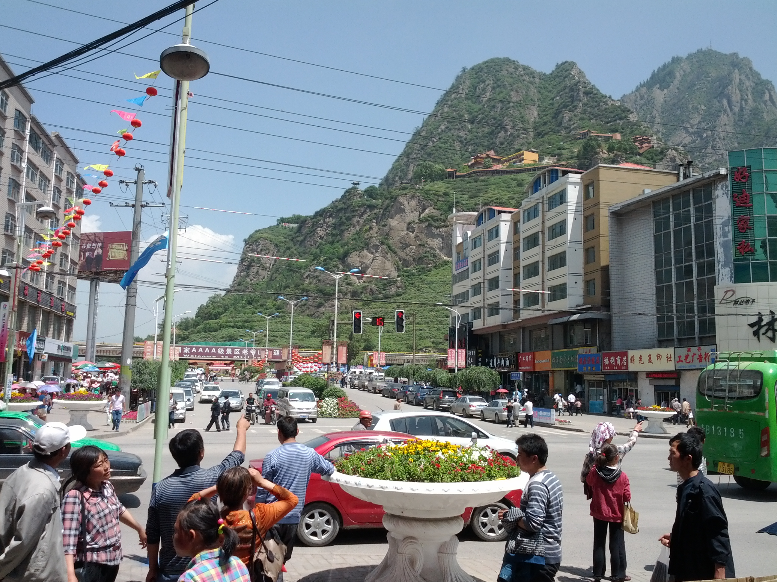 Looking east from the intersection of Jianguo West Road (建国西路) and Jiefang South Road (解放南路) in Datong (大通) , Qinghai province, China. Note the brown sign with white lettering: "Welcome to Mt. Laoye".